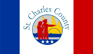 Flag of St. Charles County, Missouri, USA